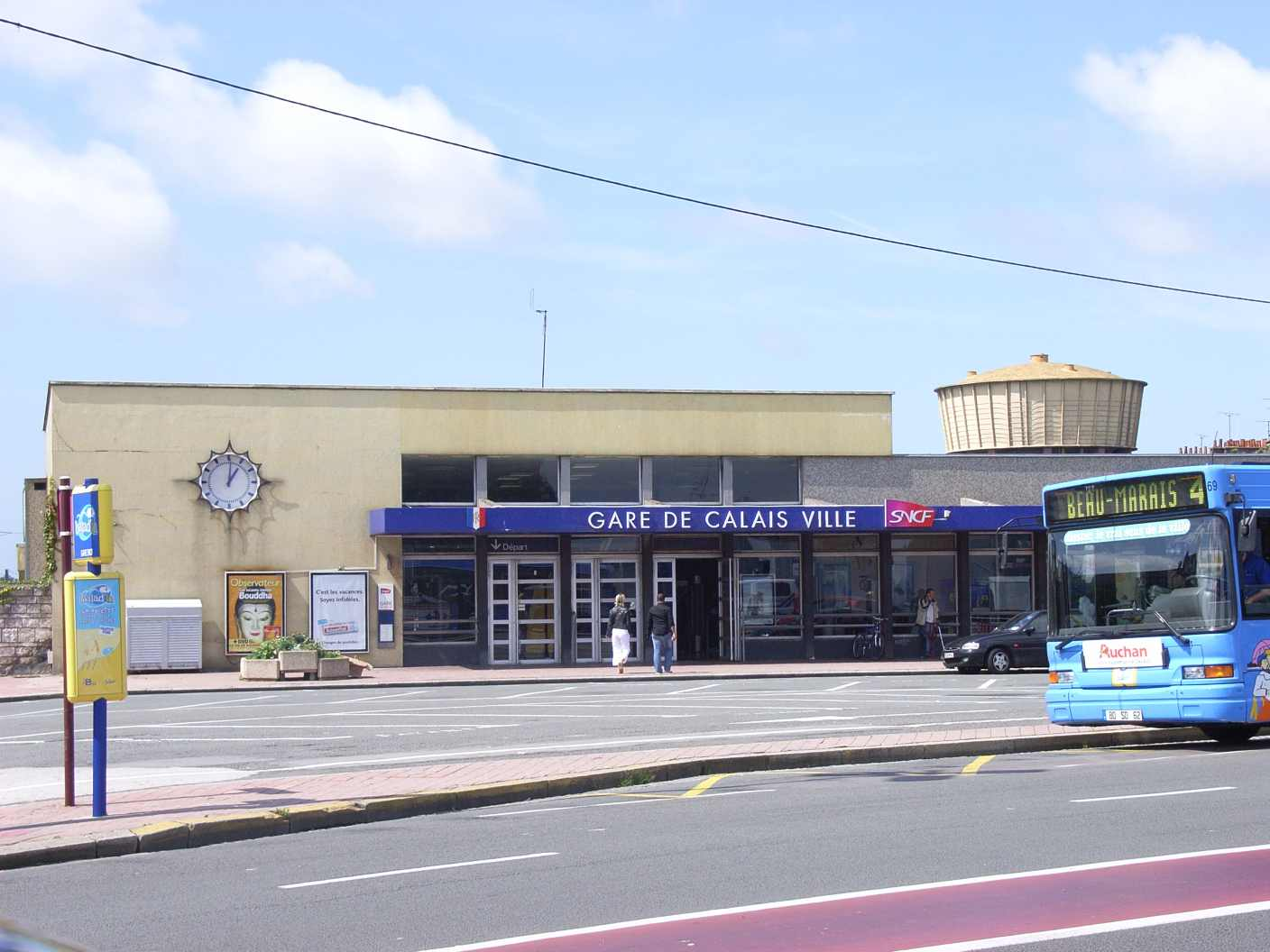 Calais Station